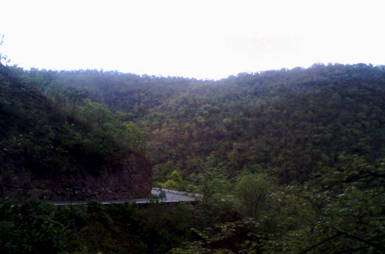 Nallamalla hills on rainy day at Atmakuru in Kurnool district